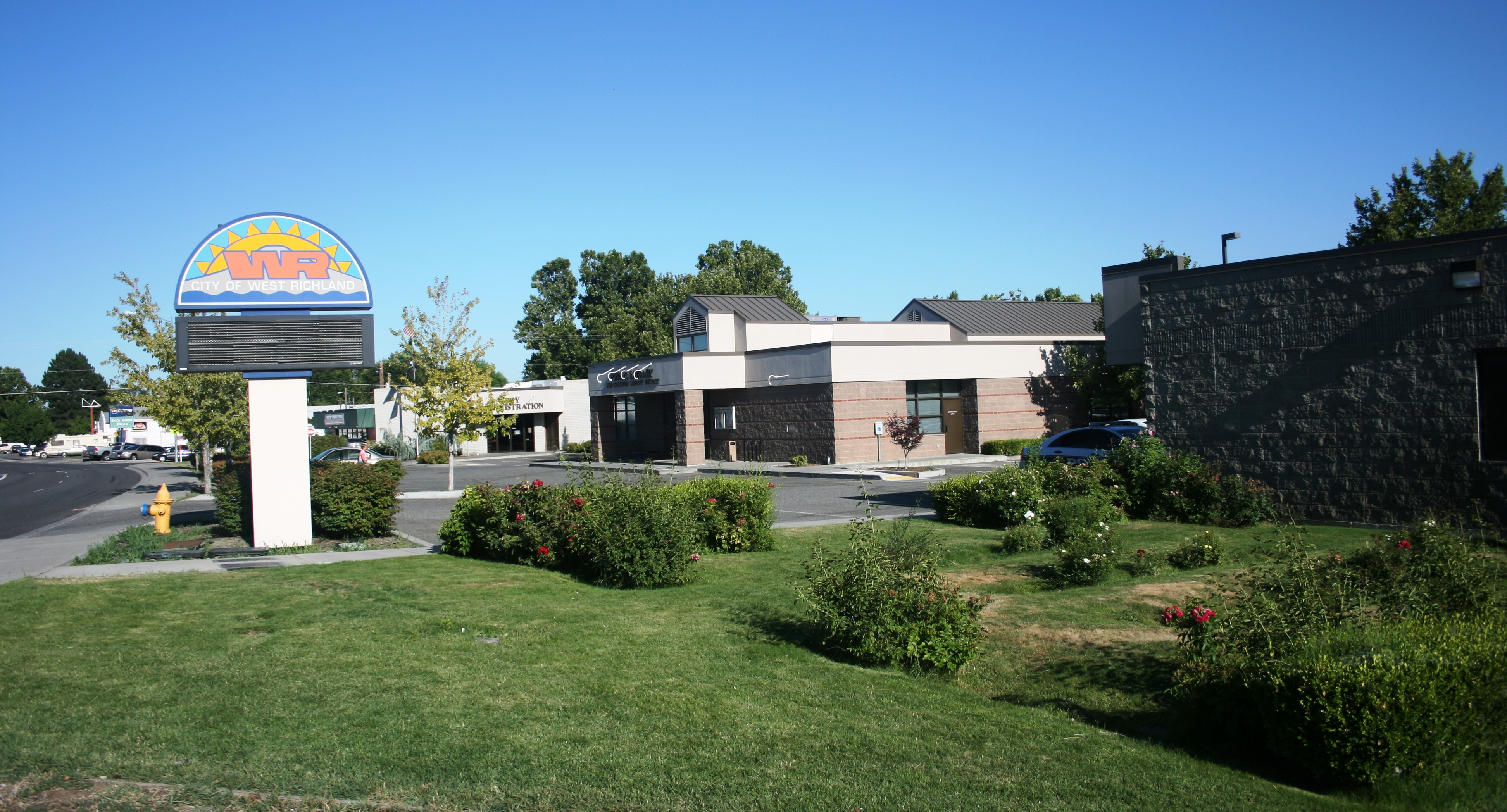 West Richland, Washington